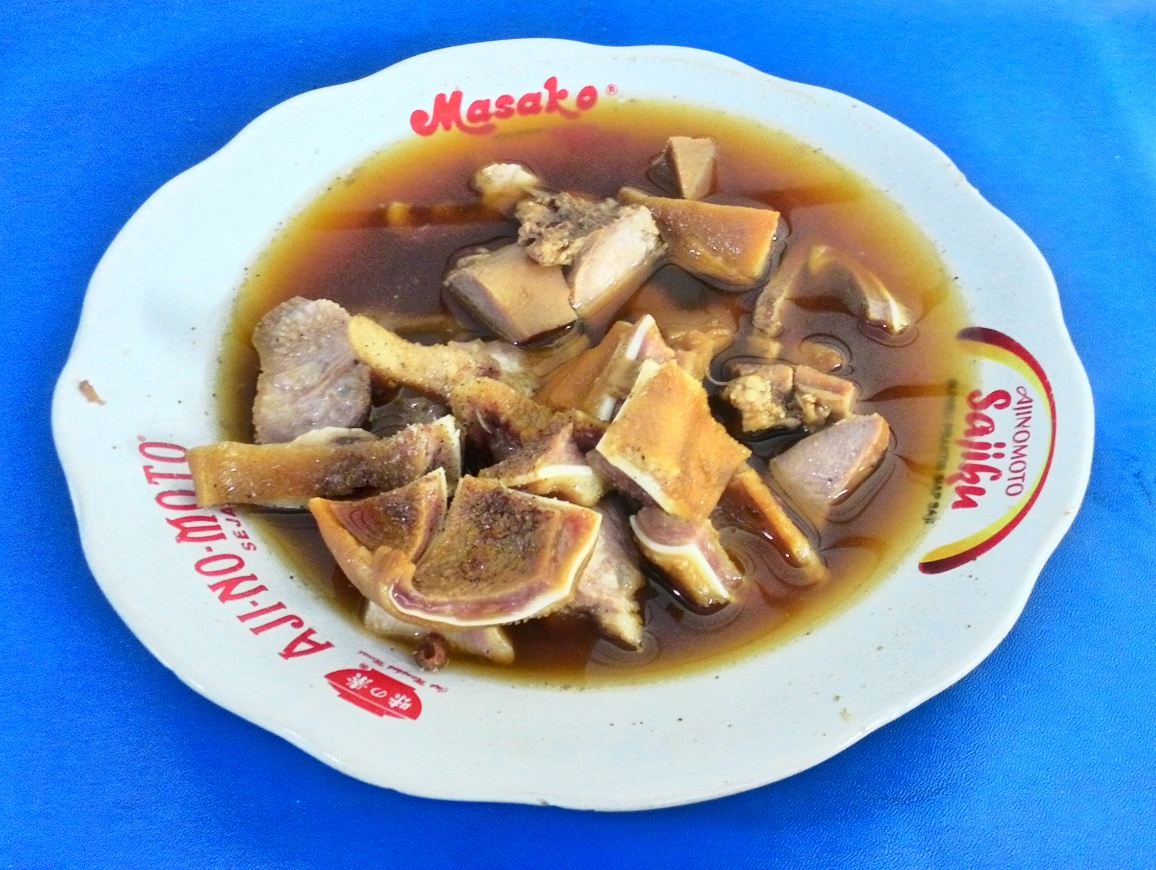 Sekba or Bektim, a Chinese Indonesian pork offal and meat stew, served in soy, garlic, and Chinese herb soup. Customer might choose the type of pork offals in their dish. This dish contains three kinds; ear, tongue and meat. Gloria alley, Glodok Chinatown in Jakarta, Indonesia.